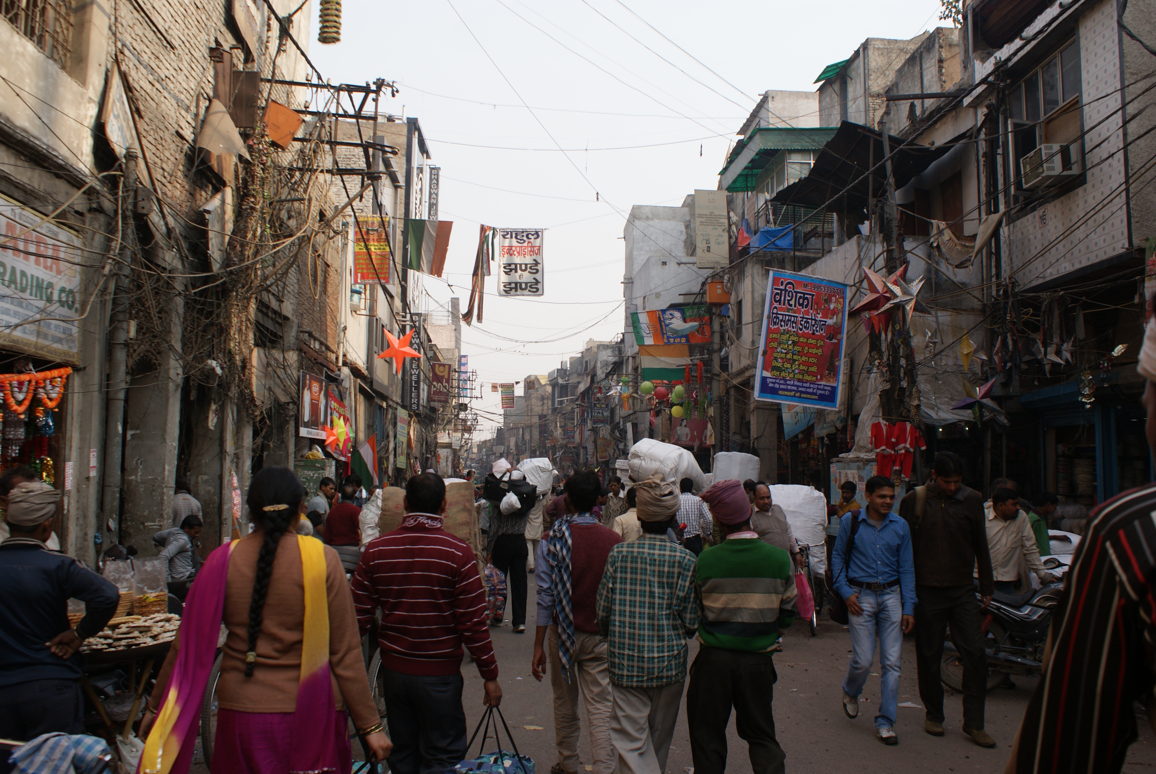 The Bara Toti market in Sadar Bazaar